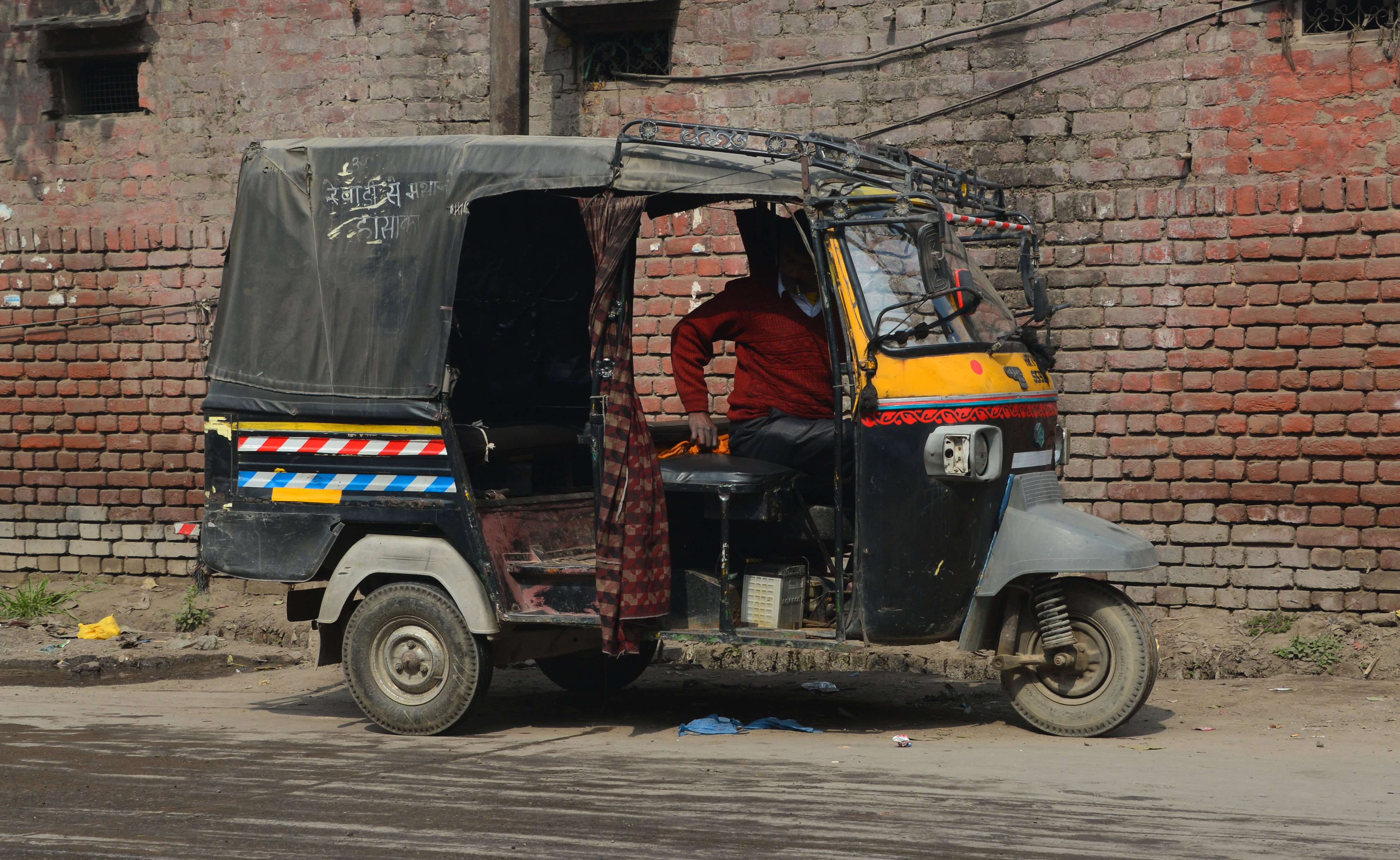 Auto rickshaw in Rewari, India